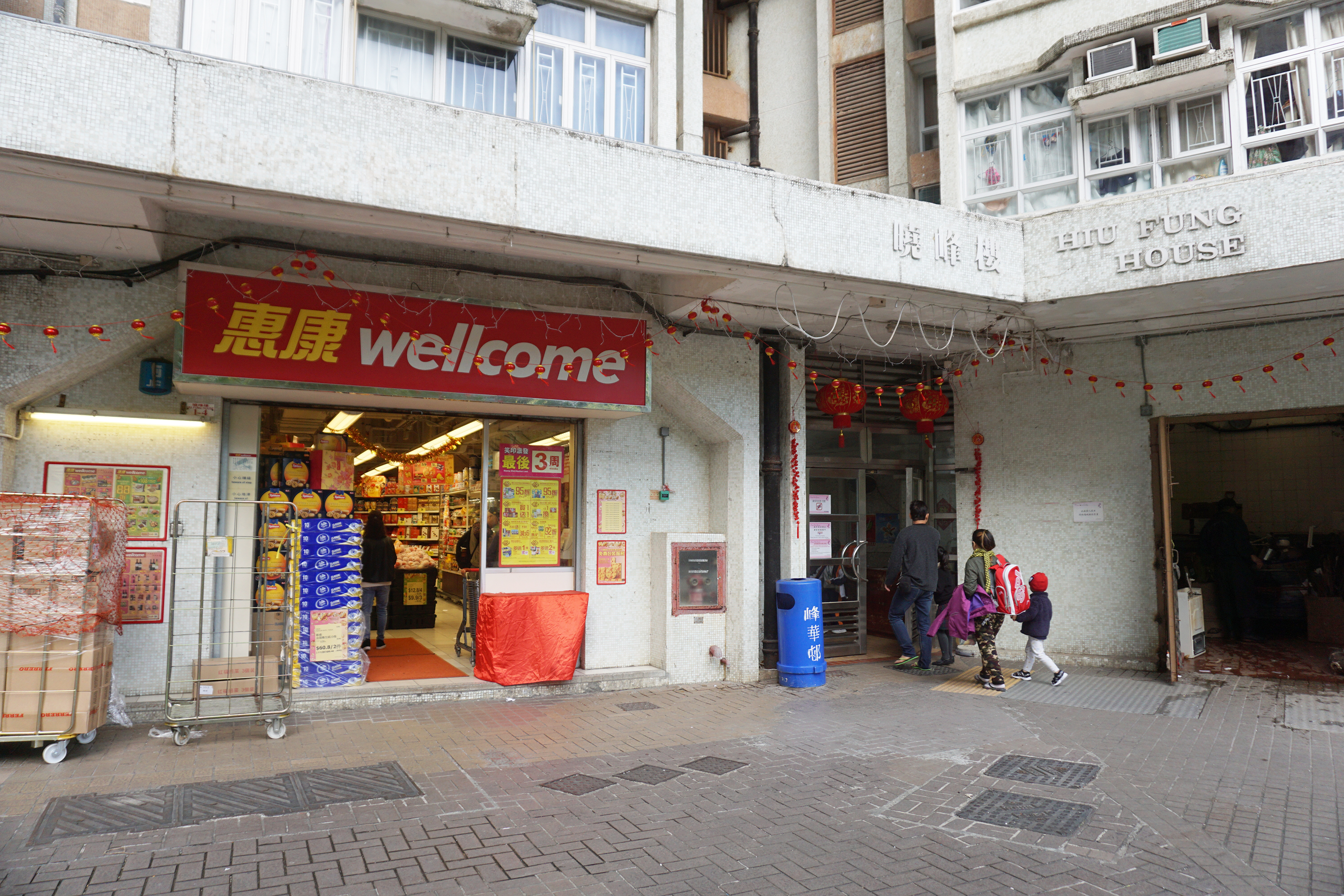 Fung Wah Estate in Chai Wan, Hong Kong.